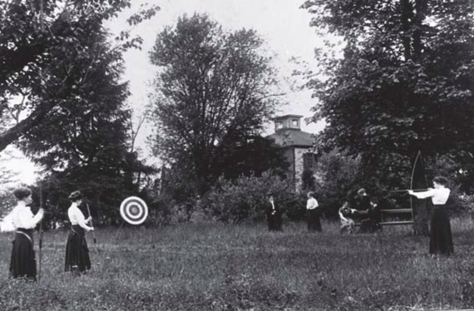 Immaculata Seminary students practicing archery in front of Dunblane, circa 1906-09